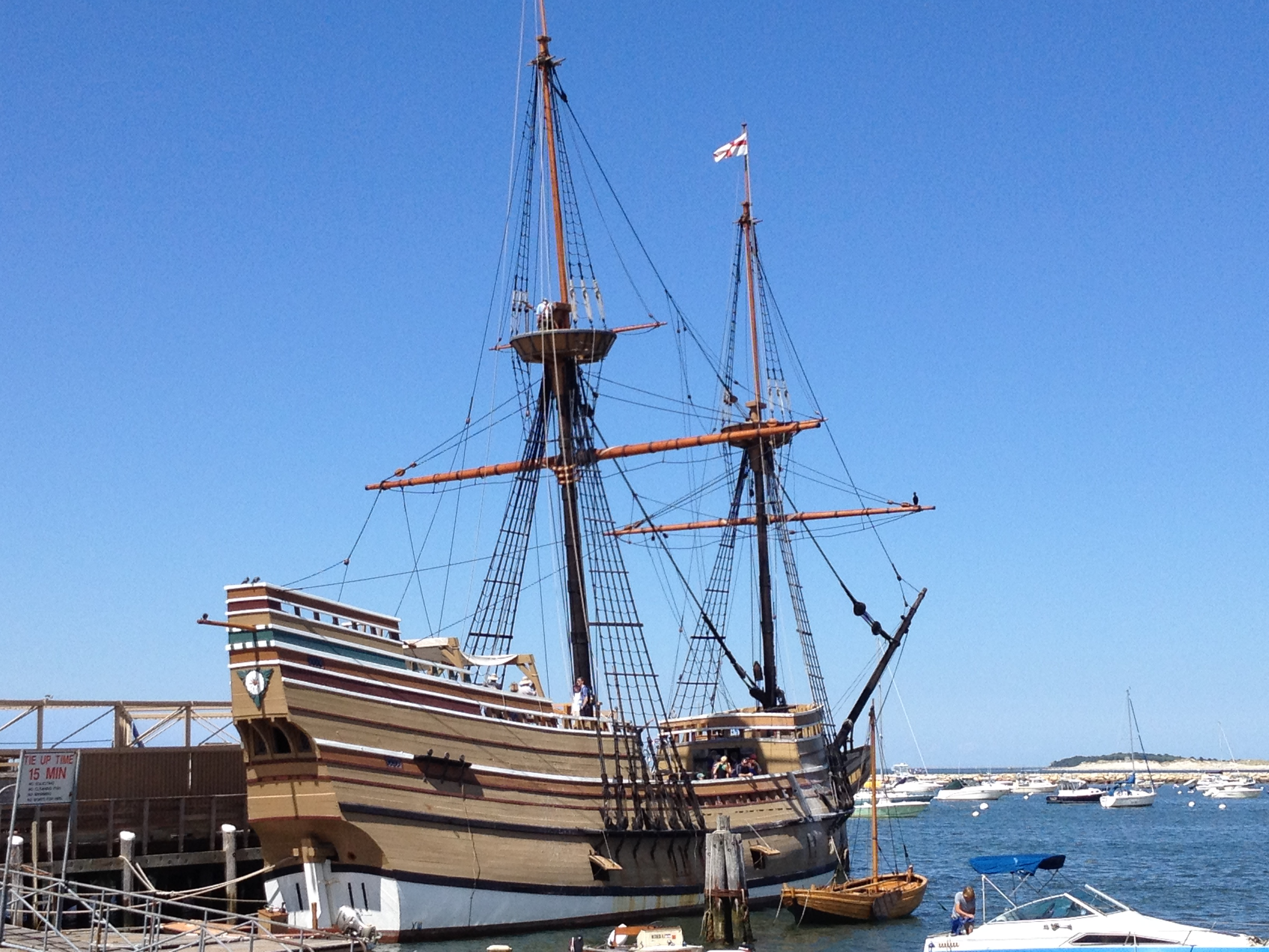 Mayflower II (ship, 1956). replica at Plymouth, MA.